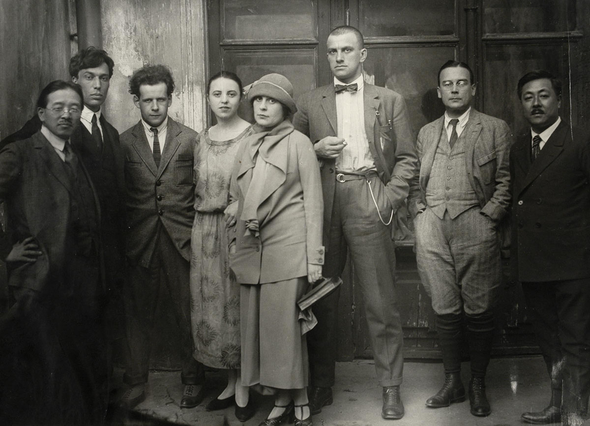 Pasternak (second from left) with friends including Lilya Brik, Eisenstein (third from left) and Mayakovsky (centre). On the left, Japanese writer Tomizi Tamiji Naito (1885-1965). From the Collection of the Museum of Fine Arts, Houston, 1924